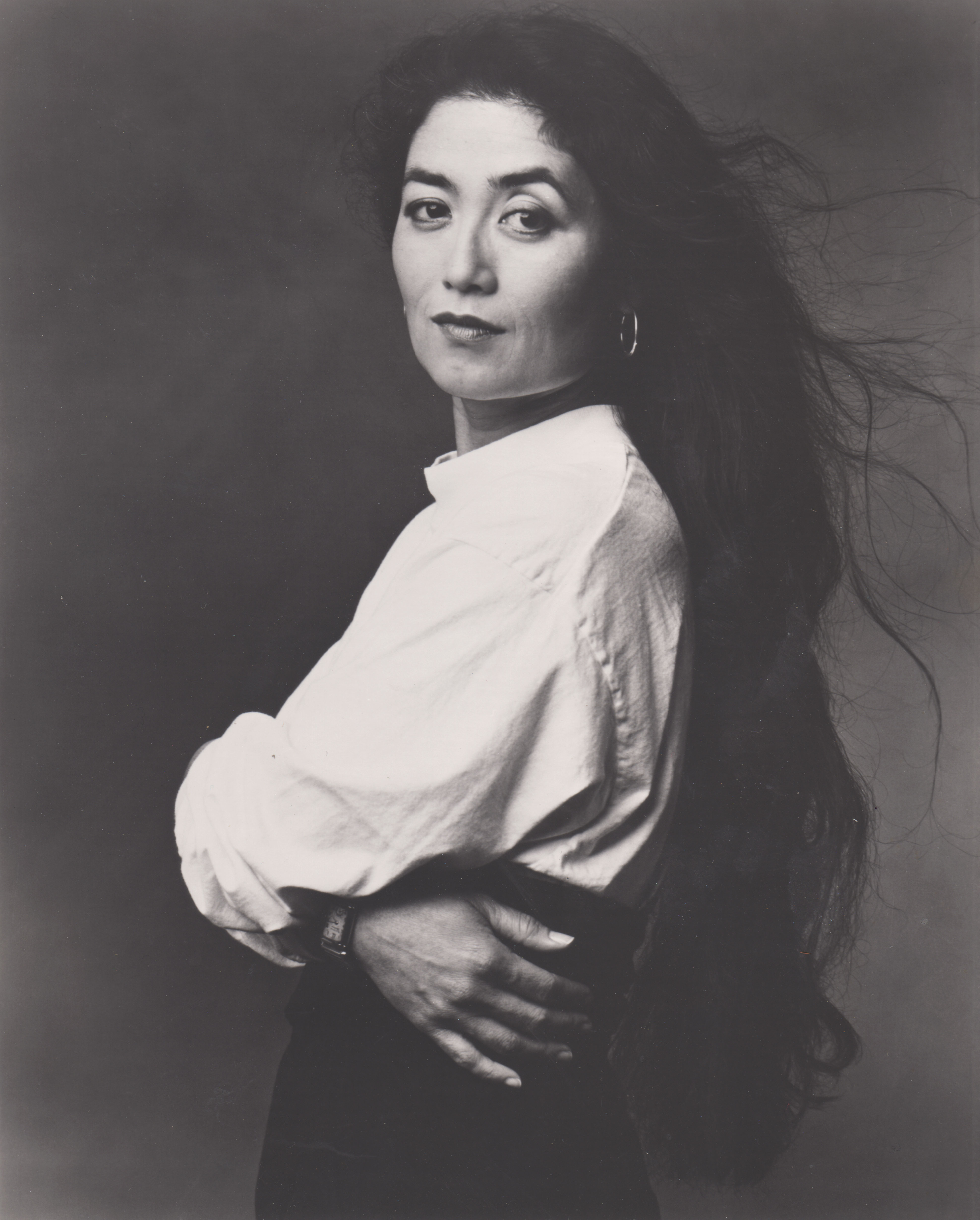 Brenda Wong Aoki is an American playwright, performance artist, and storyteller.